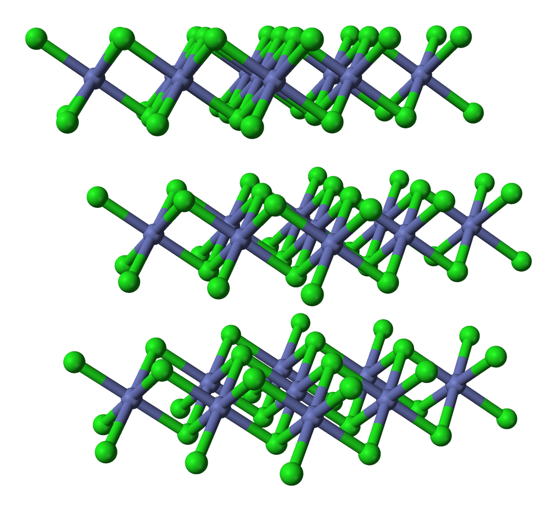 Ball-and-stick model of part of the crystal structure of cobalt(II) chloride, CoCl2